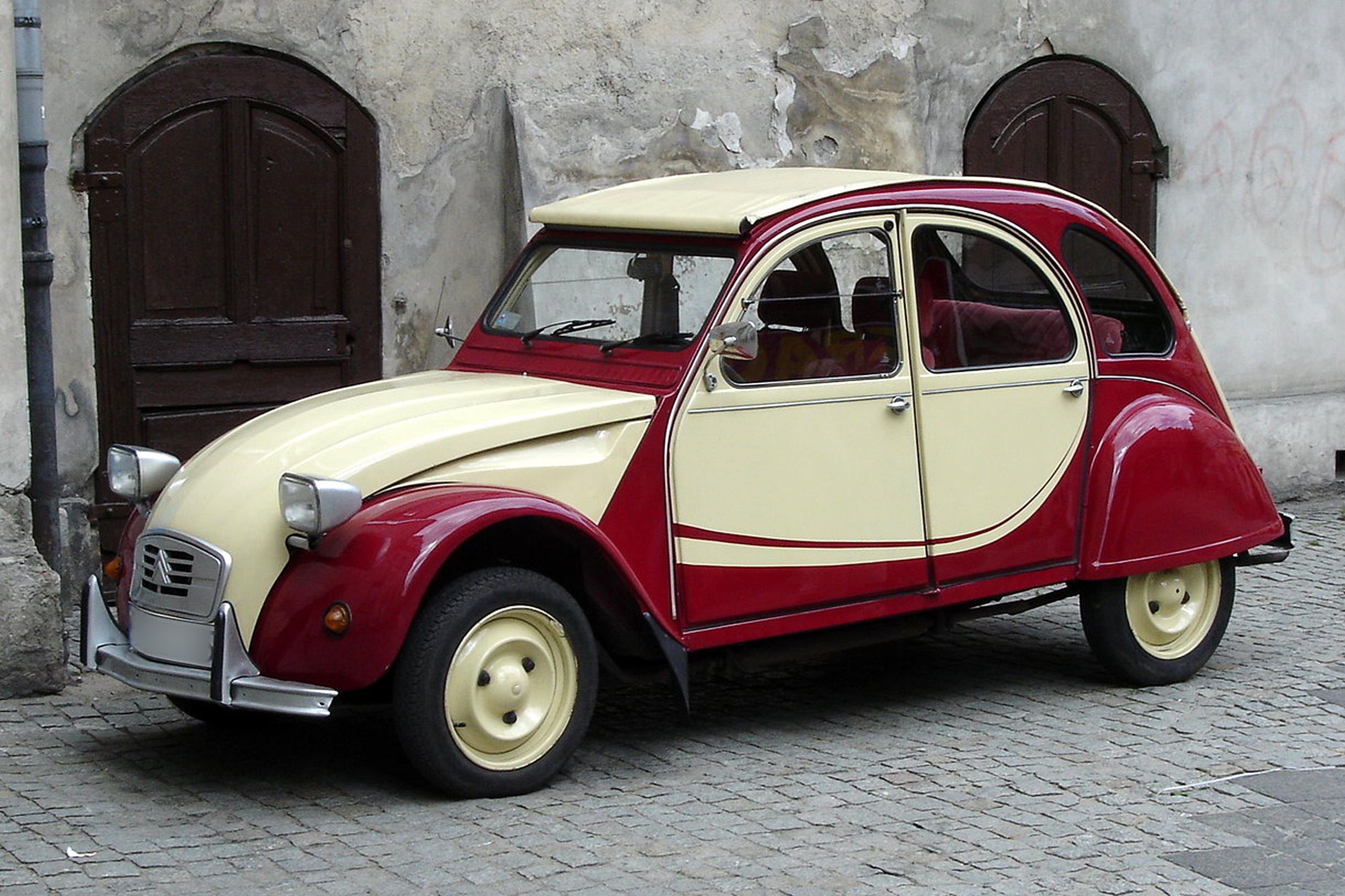 Citroёn 2CV